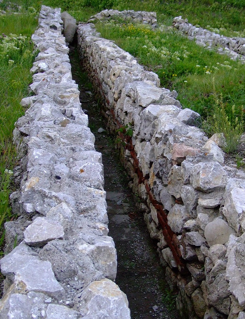 Roman Castra Potaissa built after the conquest of Dacia by Trajan in 106 AD, located in modern Turda, Romania